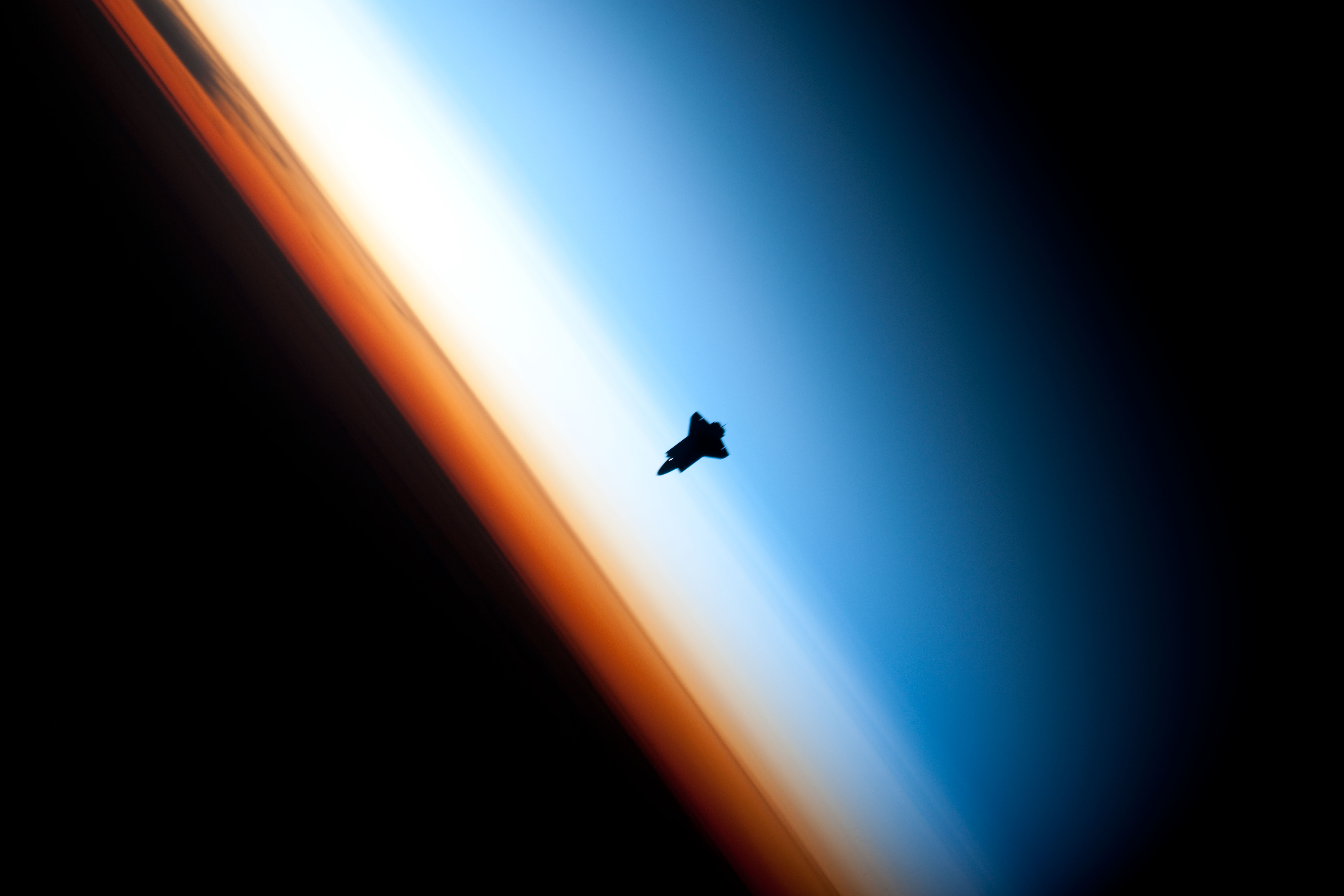 Though astronauts and cosmonauts often encounter striking scenes of Earth's limb, this unique image, part of a series over Earth's colorful horizon, has the added feature of a silhouette of the space shuttle Endeavour. The image was photographed by an Expedition 22 crew member prior to STS-130 rendezvous and docking operations with the International Space Station. Docking occurred at 11:06 p.m. (CST) on Feb. 9, 2010. The orbital outpost was at 46.9 south latitude and 80.5 west longitude, over the South Pacific Ocean off the coast of southern Chile, with an altitude of 183 nautical miles (210 statute miles) when the image was recorded. The orange layer is the troposphere, where all of the weather and clouds which we typically watch and experience are generated and contained. This orange layer gives way to the whitish Stratosphere and then into the Mesosphere. In some frames the black color is part of a window frame rather than the blackness of space.